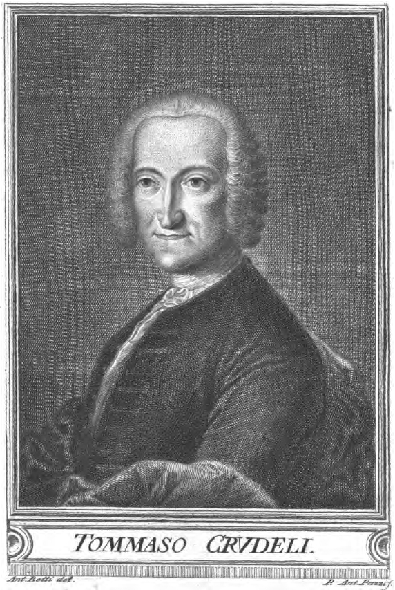 Lithography of Tommaso Crudeli